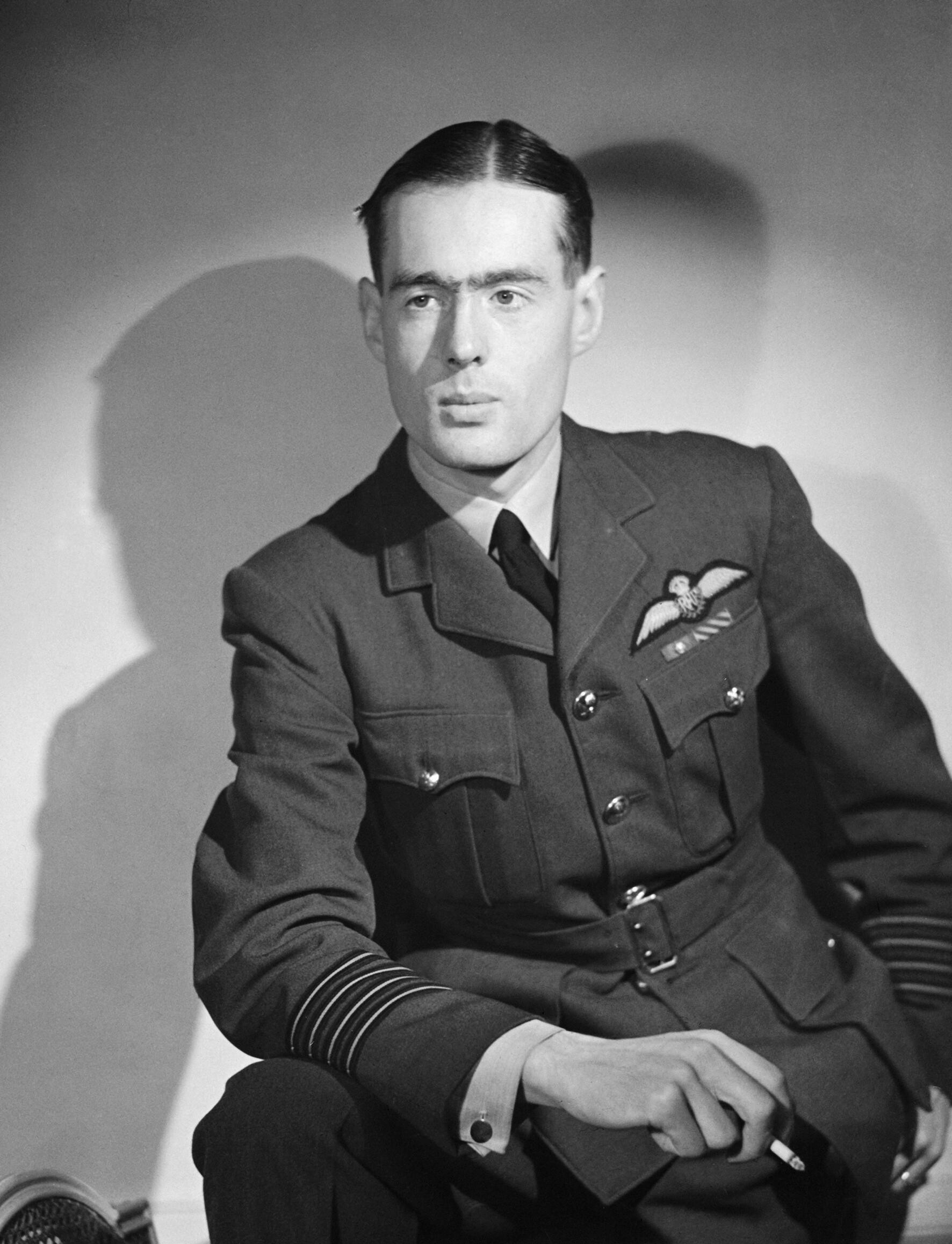 Dropping of the Atomic Bomb on Japan, August 1945 Group Captain Leonard Cheshire VC RAF, the British observer for the dropping of the second atom bomb on Nagasaki 9 August 1945 and the former commander of No 617 Squadron (Dambusters), Royal Air Force.